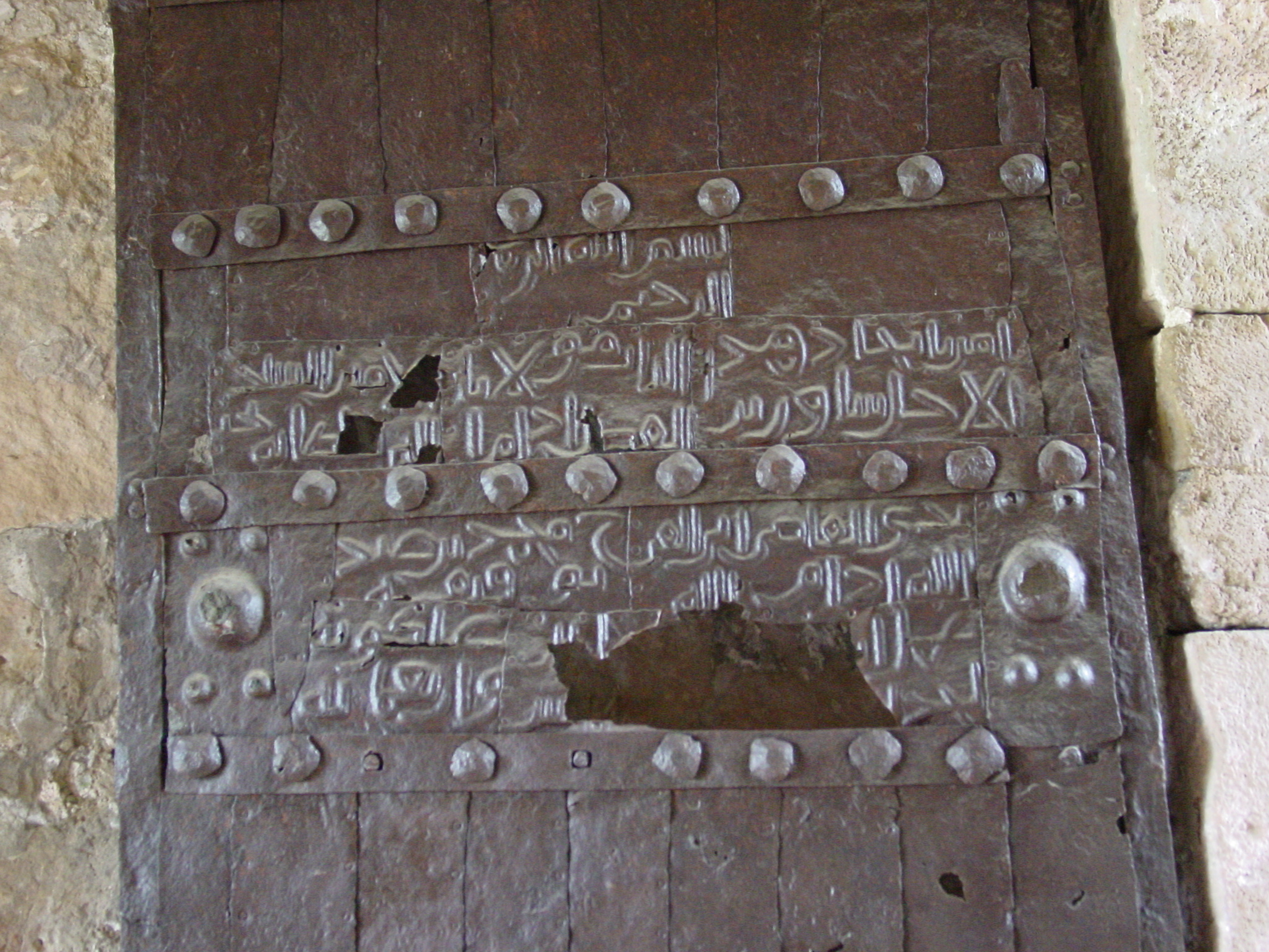 These used to be gates of Gelati. Now it leads to a little vineyard maintained by the monastery. The second door is long gone.